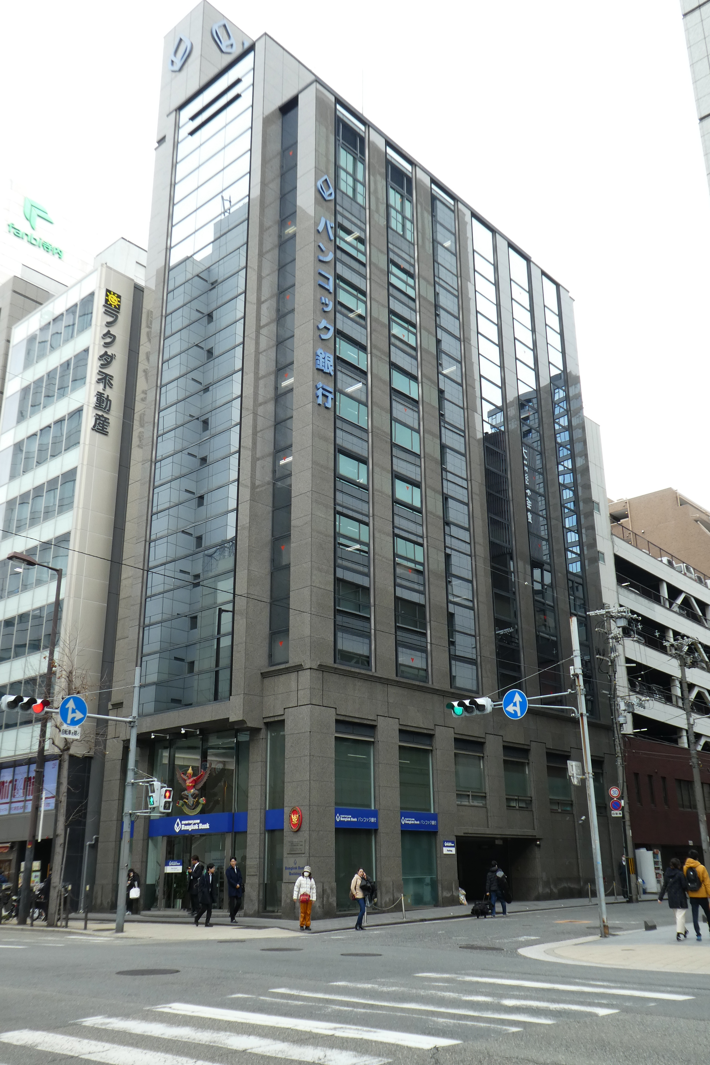 Bangkok Bank Osaka Branch. This building also hosts the Royal Thai Consulate-General in Osaka.